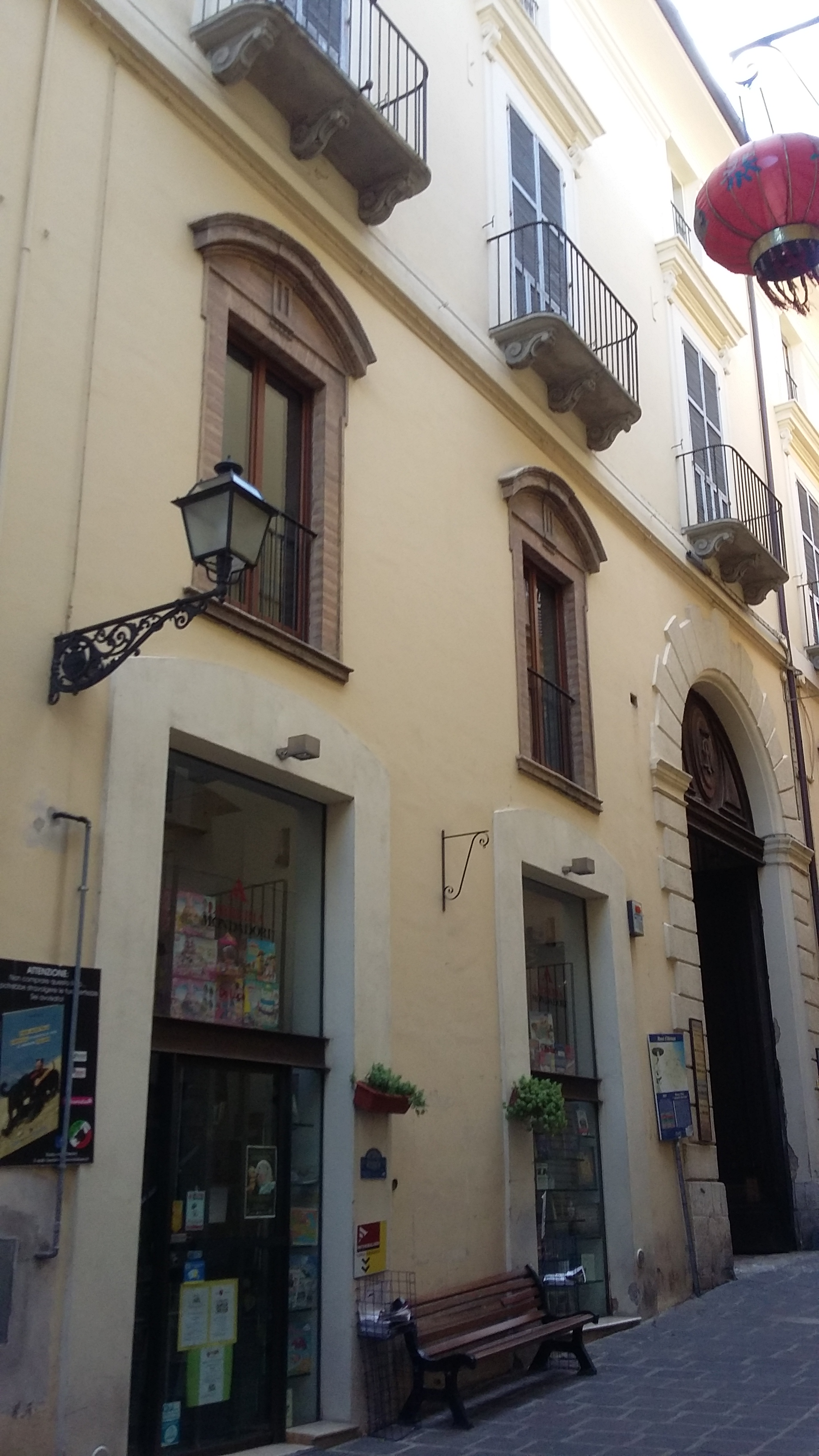 Palazzo Martinetti-Bianchi, which is situated in the old town of Chieti, was built by the Society of Jesus on the land thanks to the donation of a local nobleman in 1593. Today in this building there is the art museum "Costantino Barbella".